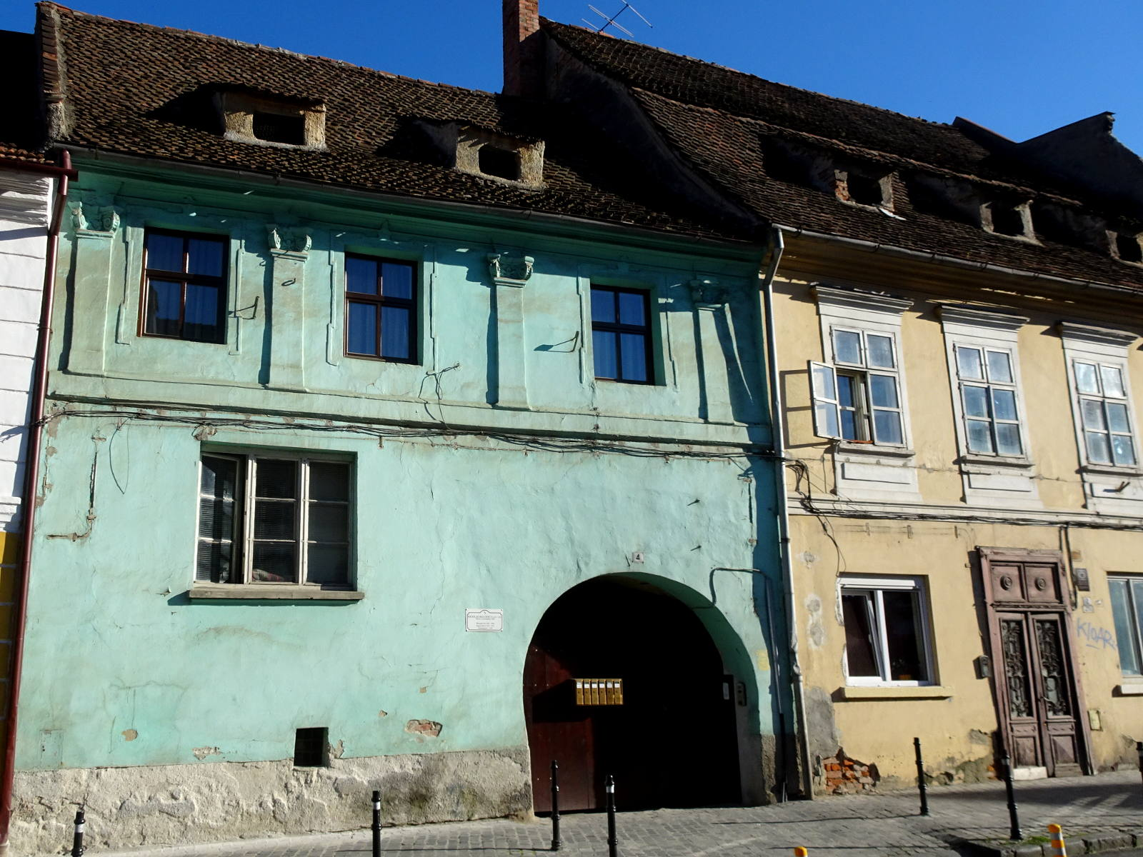 House in Bălcescu street, Brașov